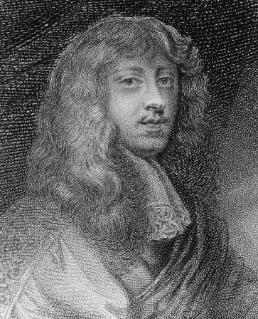 Philip Stanhope, 2nd Earl of Chesterfield (1634-1714)